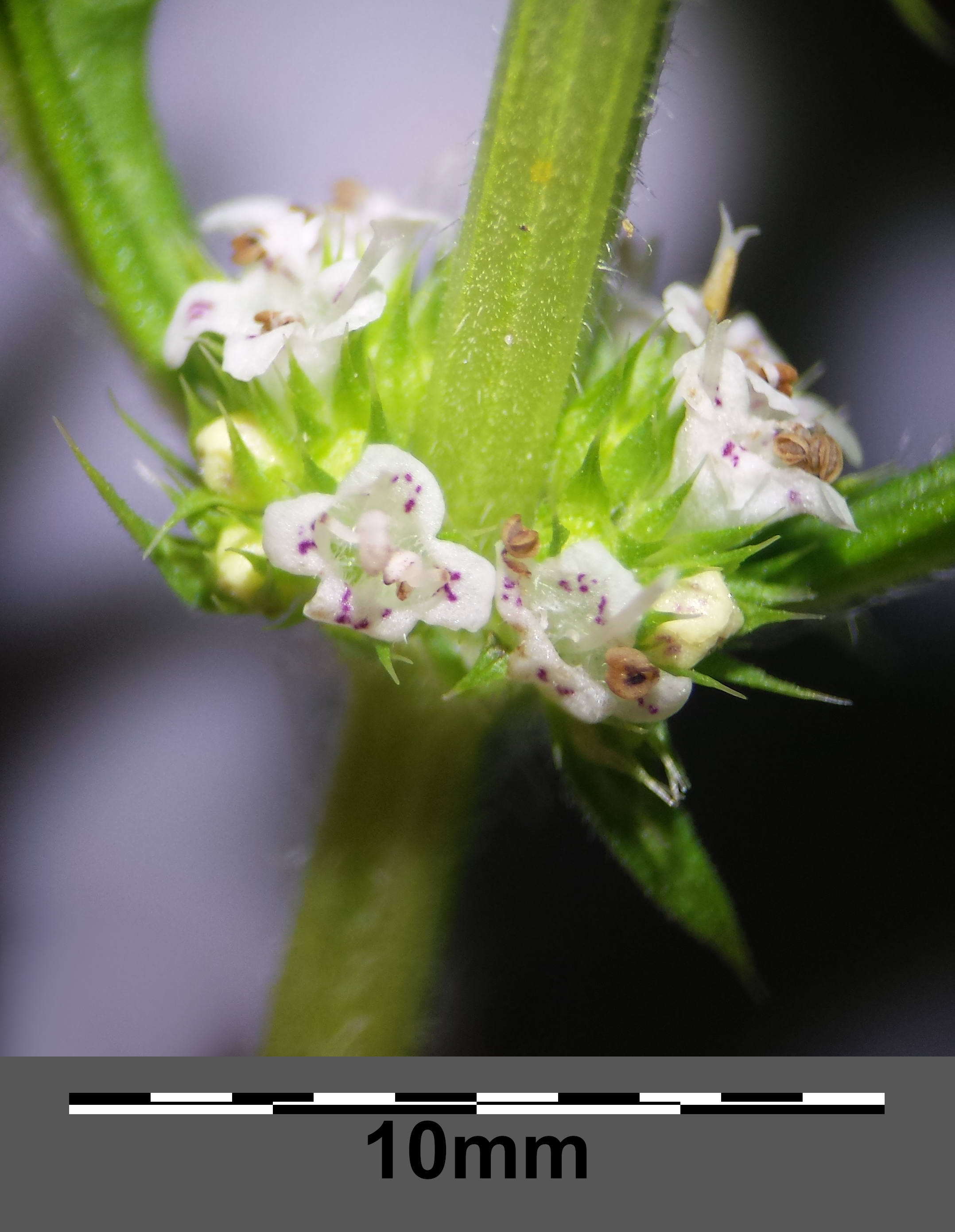 Verticillaster Taxonym: Lycopus exaltatus ss Fischer et al. EfÖLS 2008 ISBN 978-3-85474-187-9 Location: pond near Michelstetten, district Mistelbach, Lower Austria - ca. 250 m a.s.l. Habitat: shore of a pond